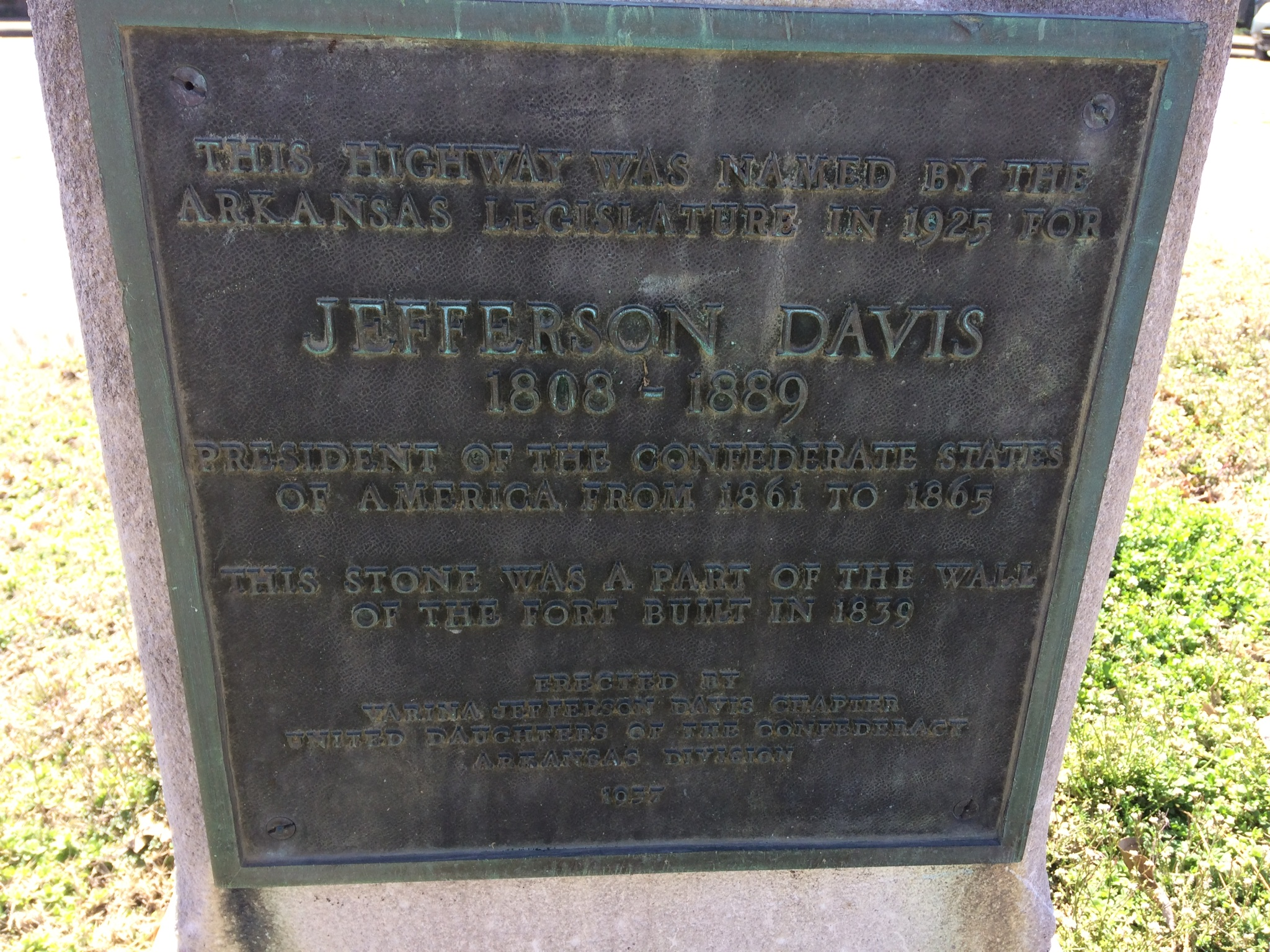 Jefferson Davis Memorial Highway